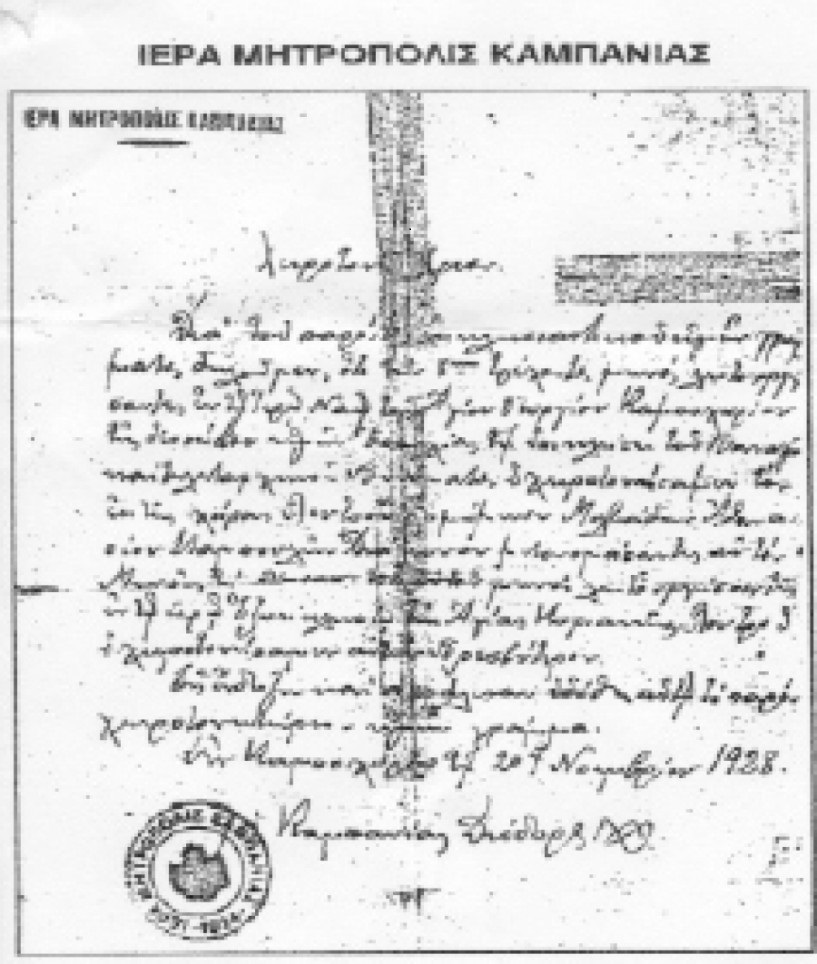 Kambania Metropoly Document 1928